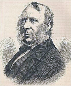 Portrait of George Cruikshank Wood engraving published in Harper's Weekly newspaper March 16, 1878 Image courtesy of